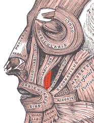 Edit of Levator anguli oris.png, cropped